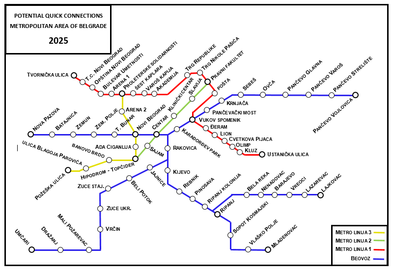 potential quick connections for the year 2025